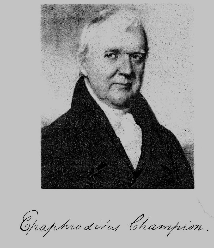 Epaphroditus Champion, US Representative from Connecticut